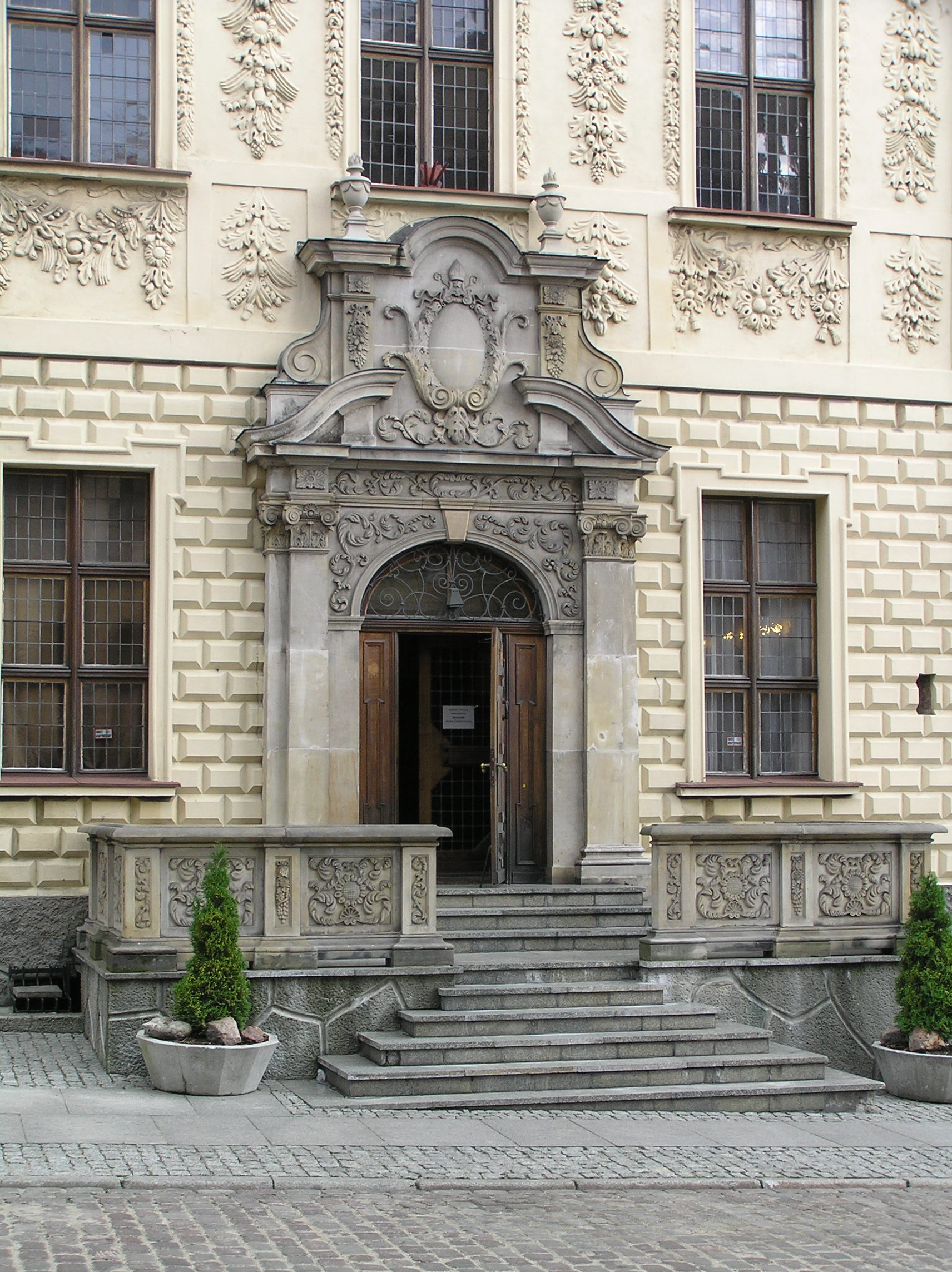 Toruń, Dąmbscy Palace, entrance portal and perron (both reconstruction from 1976-92)